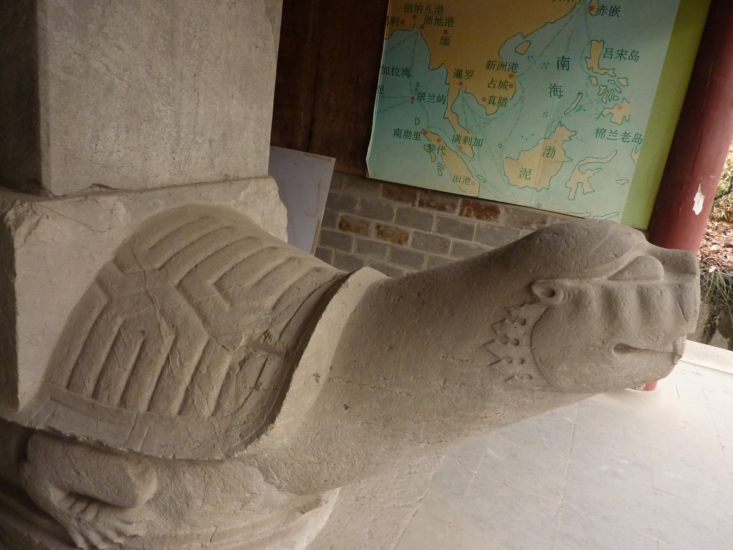 The restored stone tortoise (bixi) with a stele in memory of the Sultan of Brunei - the centerpiece of the Sultan of Brunei Tomb site in Nanjing. It sits in a restored stele pavilion, decorated with information boards about Brunei and Sino-Bruneian relations.